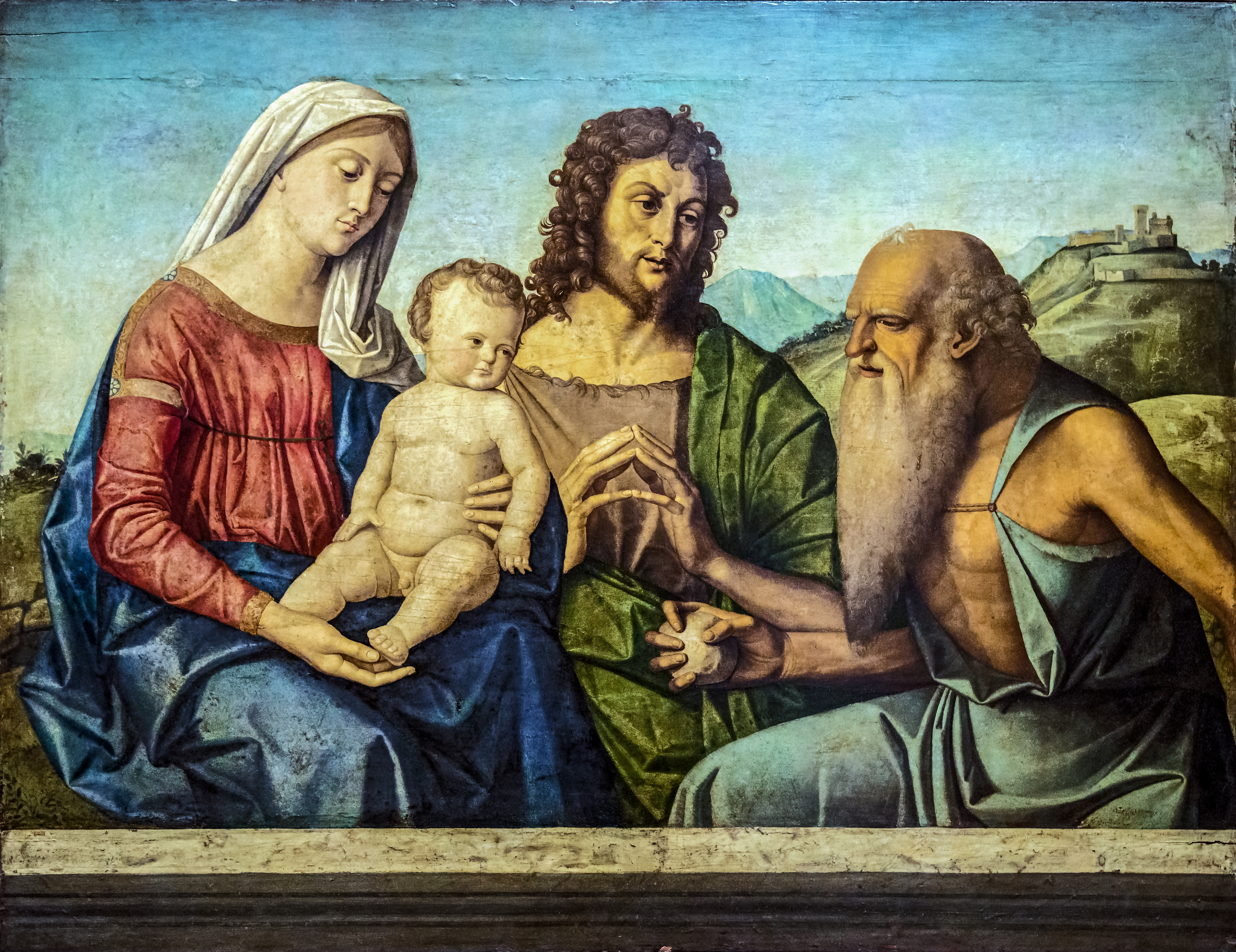 The Virgin and Child with St. John the Baptist and st Saint jerome